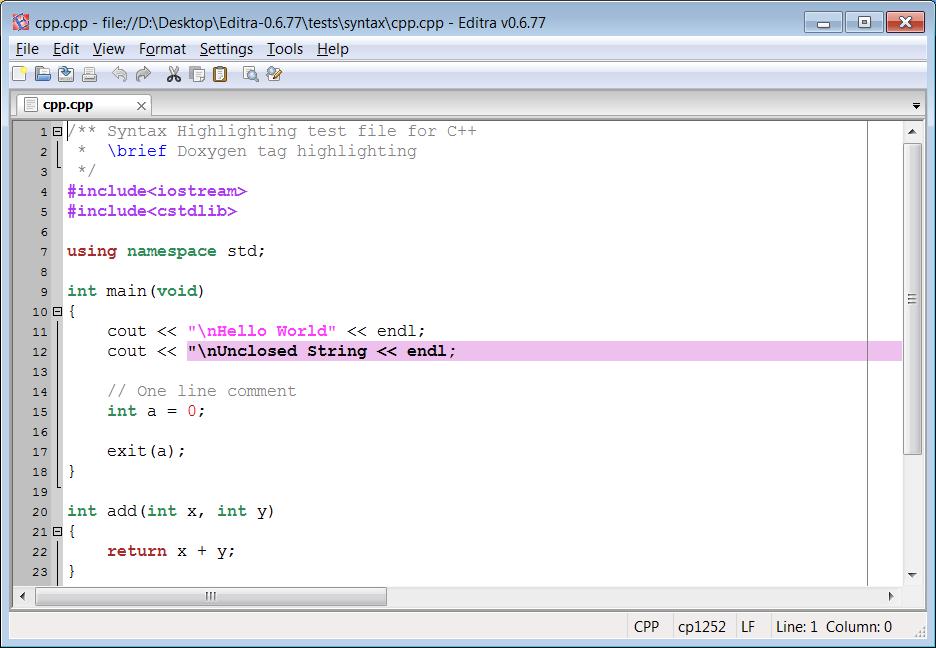 Capture of Editra